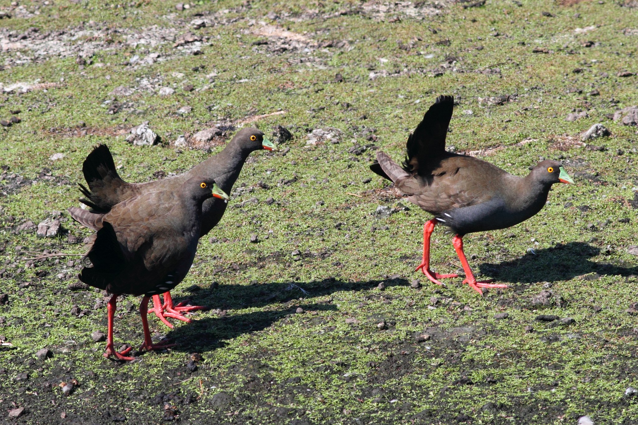 Black-tailed Nativehen Tribonyx ventralis at Coolart Wetlands, Mornington Peninsula, Victoria, Australia